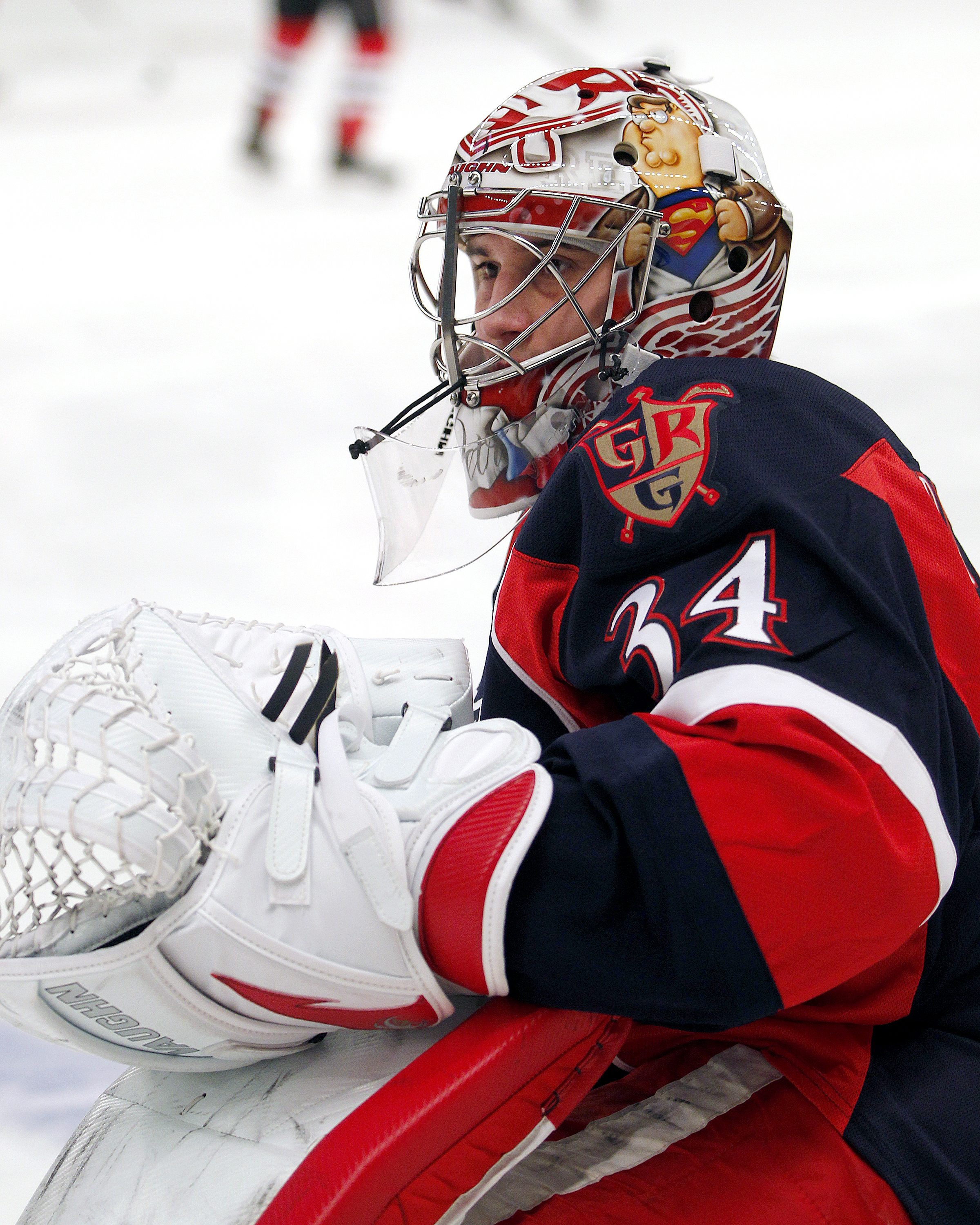 Mrazek American Hockey League (AHL). 2013 All-Star Skills Competition. Taken on January 27, 2013.